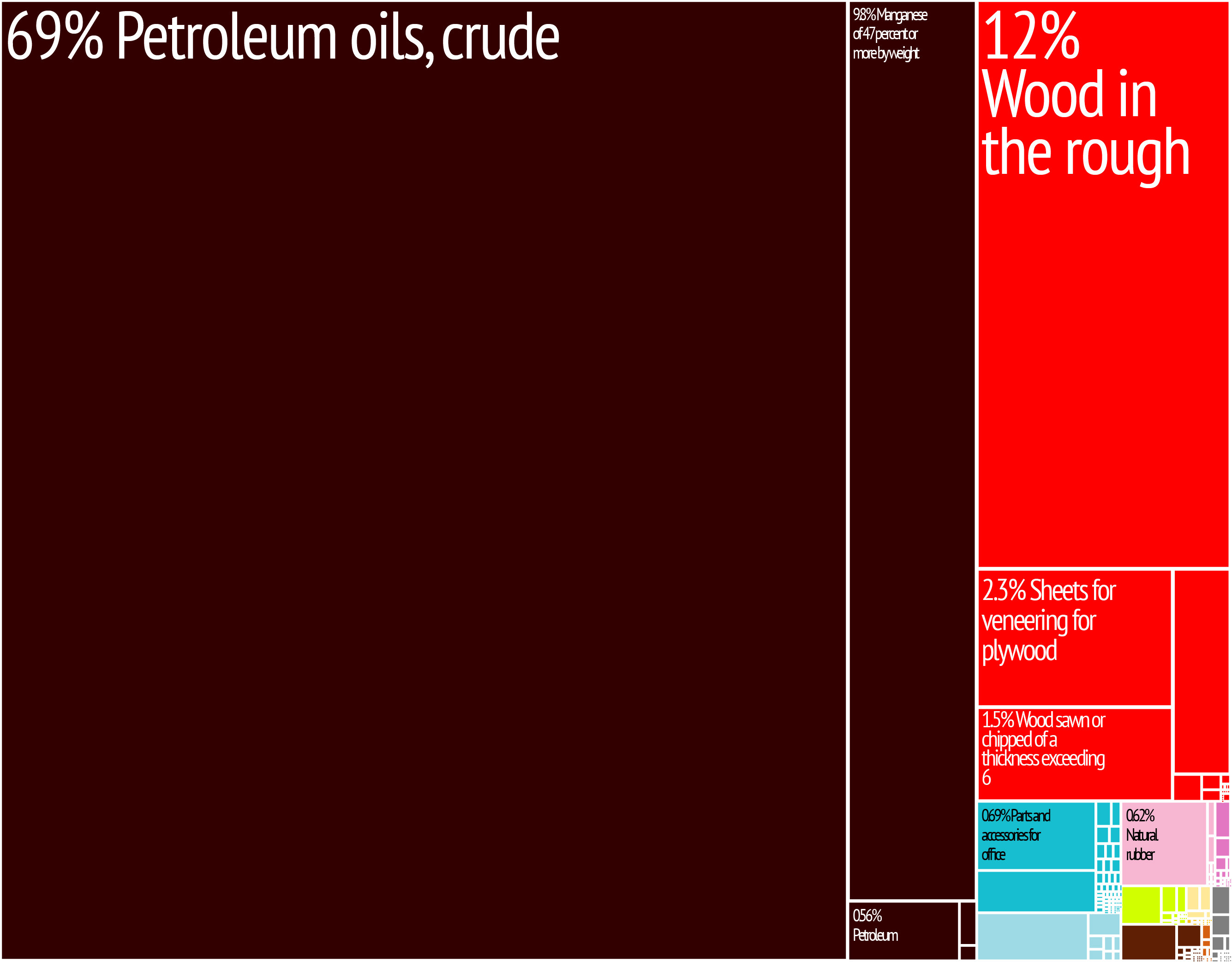 Gabon Export Treemap from MIT Harvard Economic Complexity Observatory